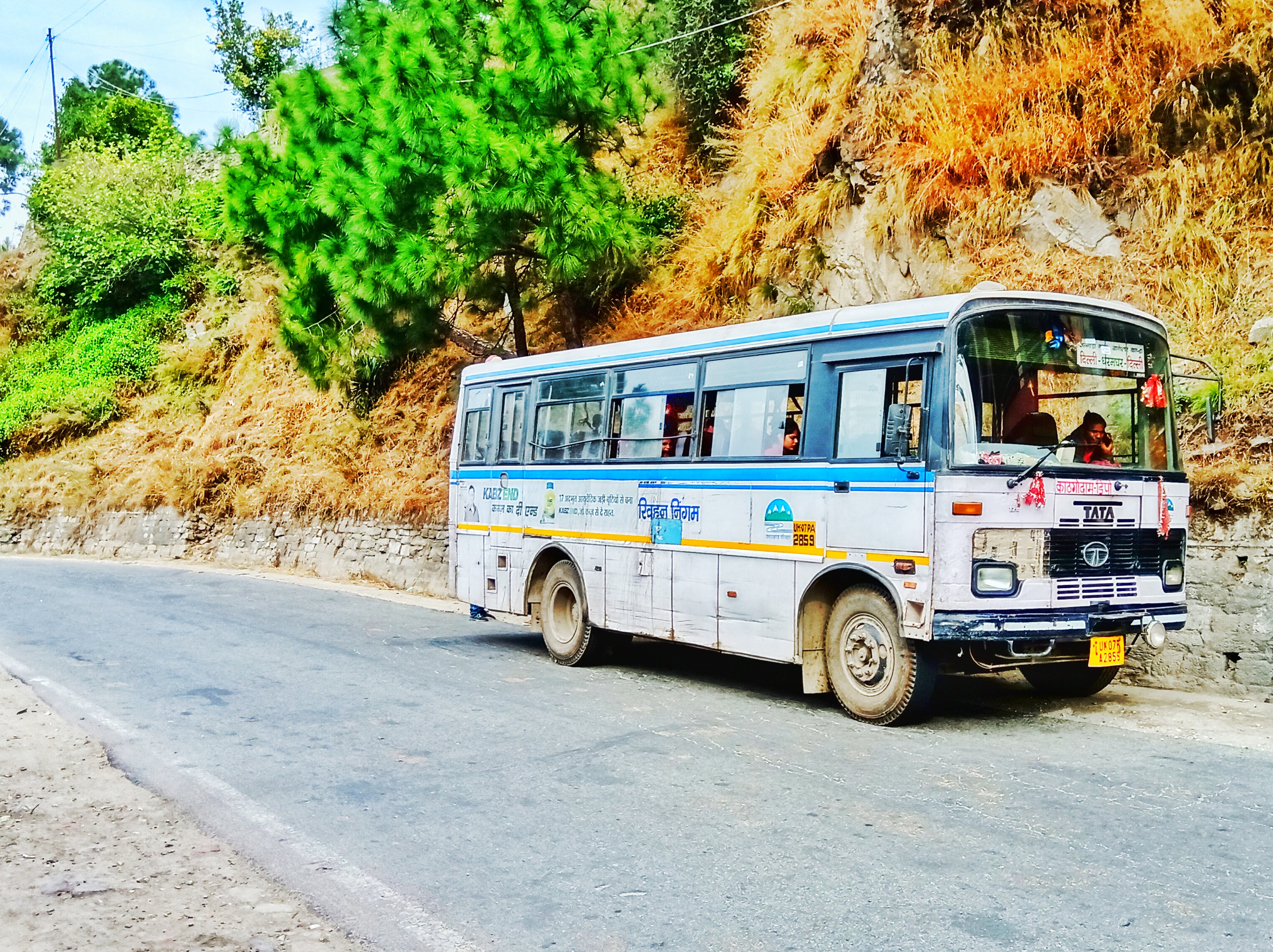 Uttarakhand Roadways Bus at Lodhiya, Almora